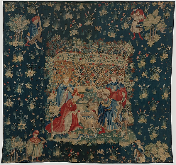 "The Falcon's Bath" tapestry with wool warp and wool wefts